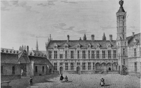 Drawing of the Hof van Busleyden, by Jean-Baptiste De Noter (1787-1855)